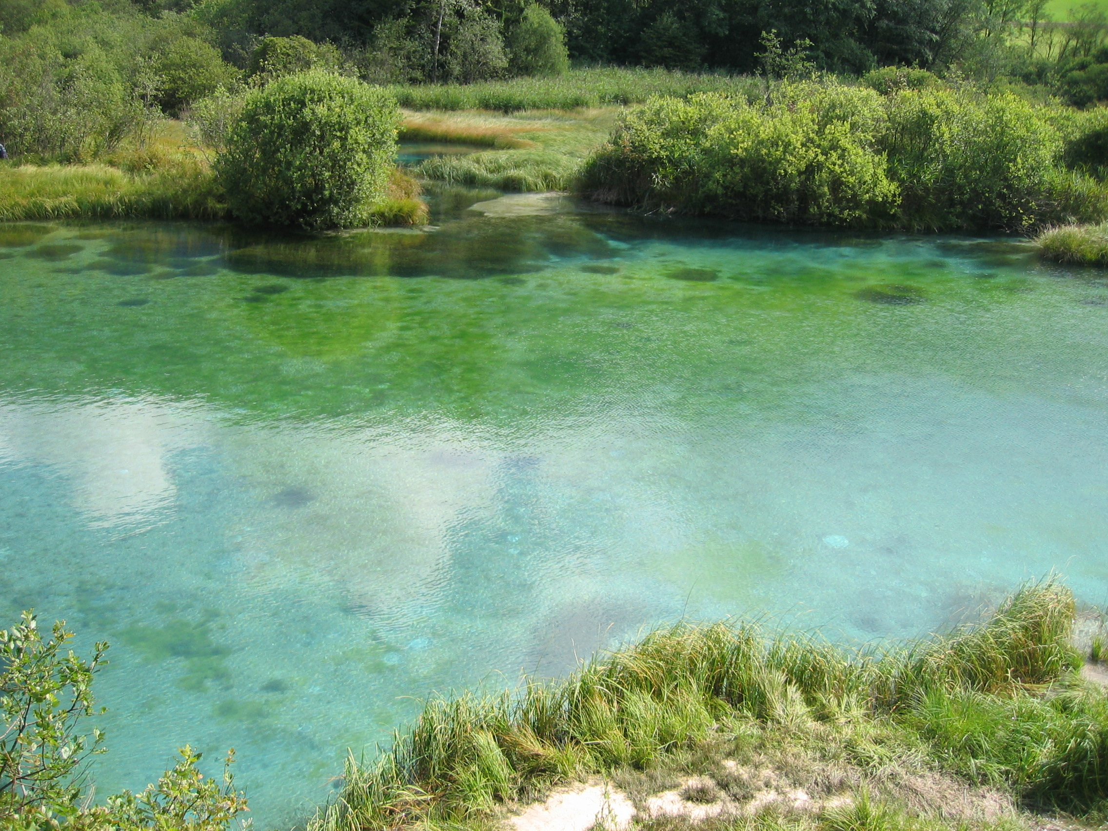 Karst spring of river Sava, southern Limestone Alps, Slovenia